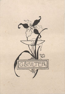 Bookplate by Rihards Zariņš (1869-1939), Latvian artist